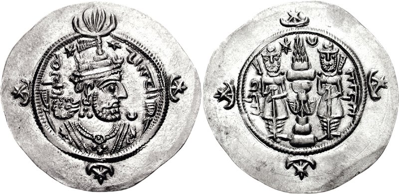 Coin of Kavadh II, Sasanian king